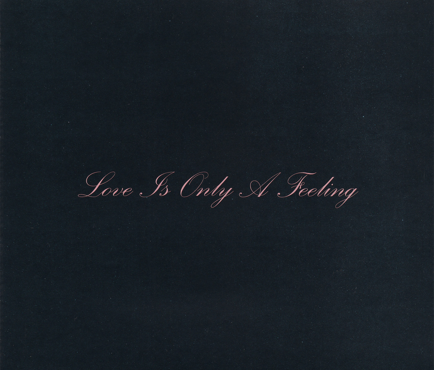 Cover of the promo single of "Love Is Only a Feeling" by The Darkness.